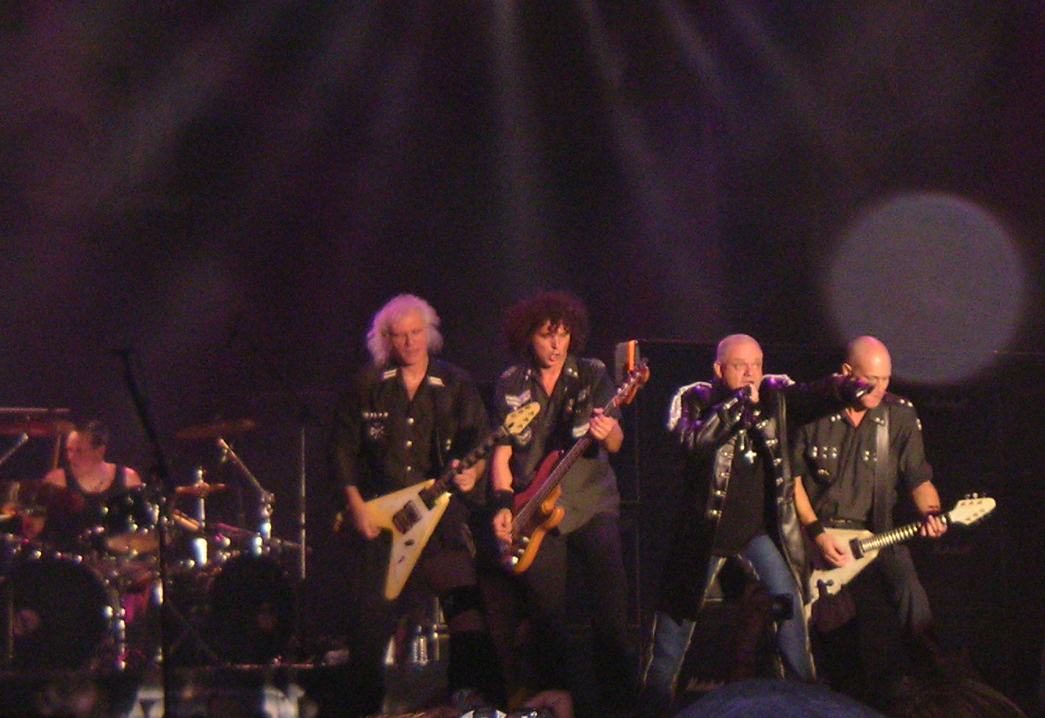 Accept performing at Sweden Rock Festival, june 2005